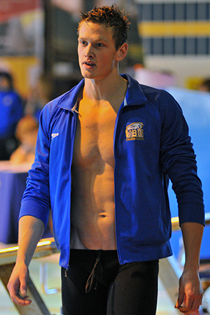 Photo of Canadian swimmer Thomas Gossland.